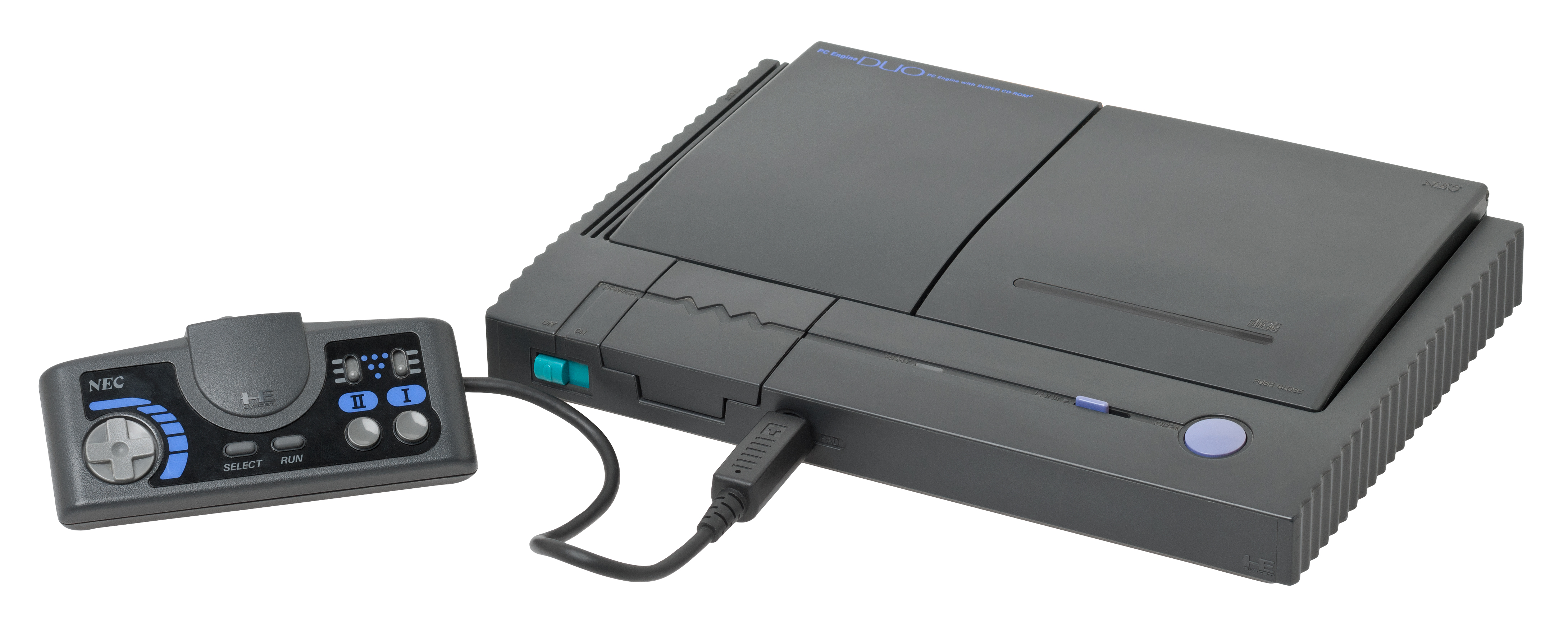 The PC Engine Duo, a system that is the incorporation of the PC Engine and the CD add-on.